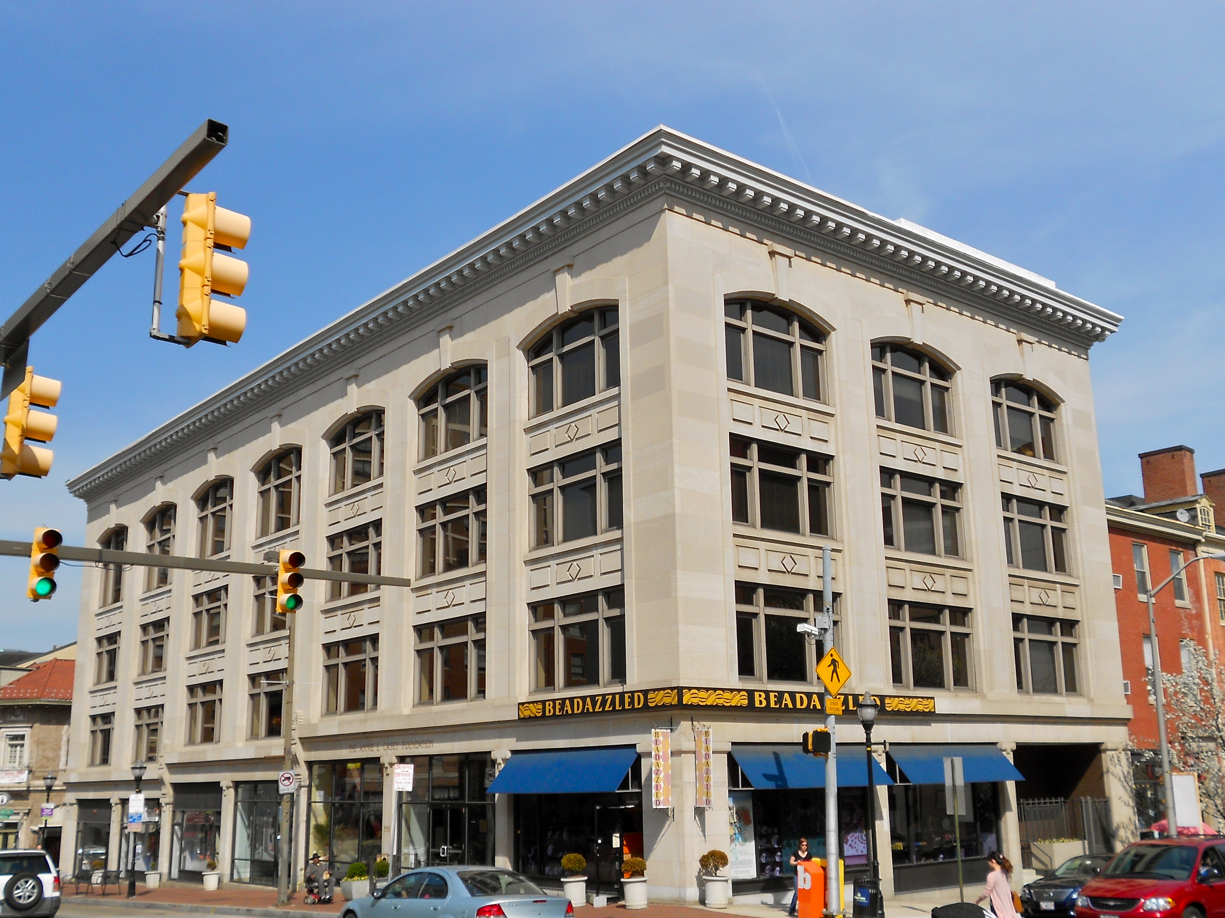 Benson Building on the NRHP since March 26, 1980. At 4 E. Franklin St. in central Baltimore, Maryland